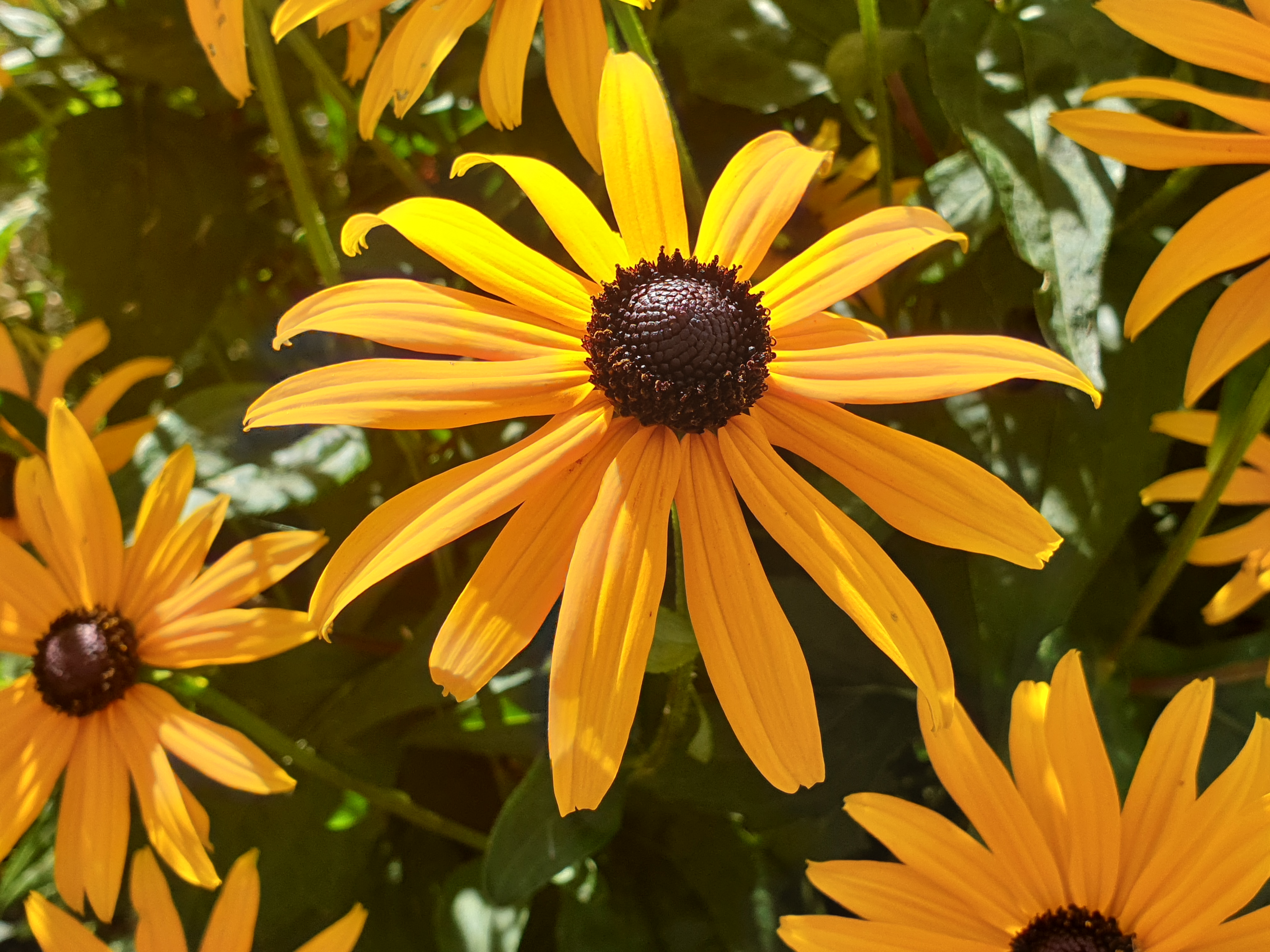 Black-eyed Susan (Rudbeckia hirta) flowers at the Priory Gardens in Orpington, England.